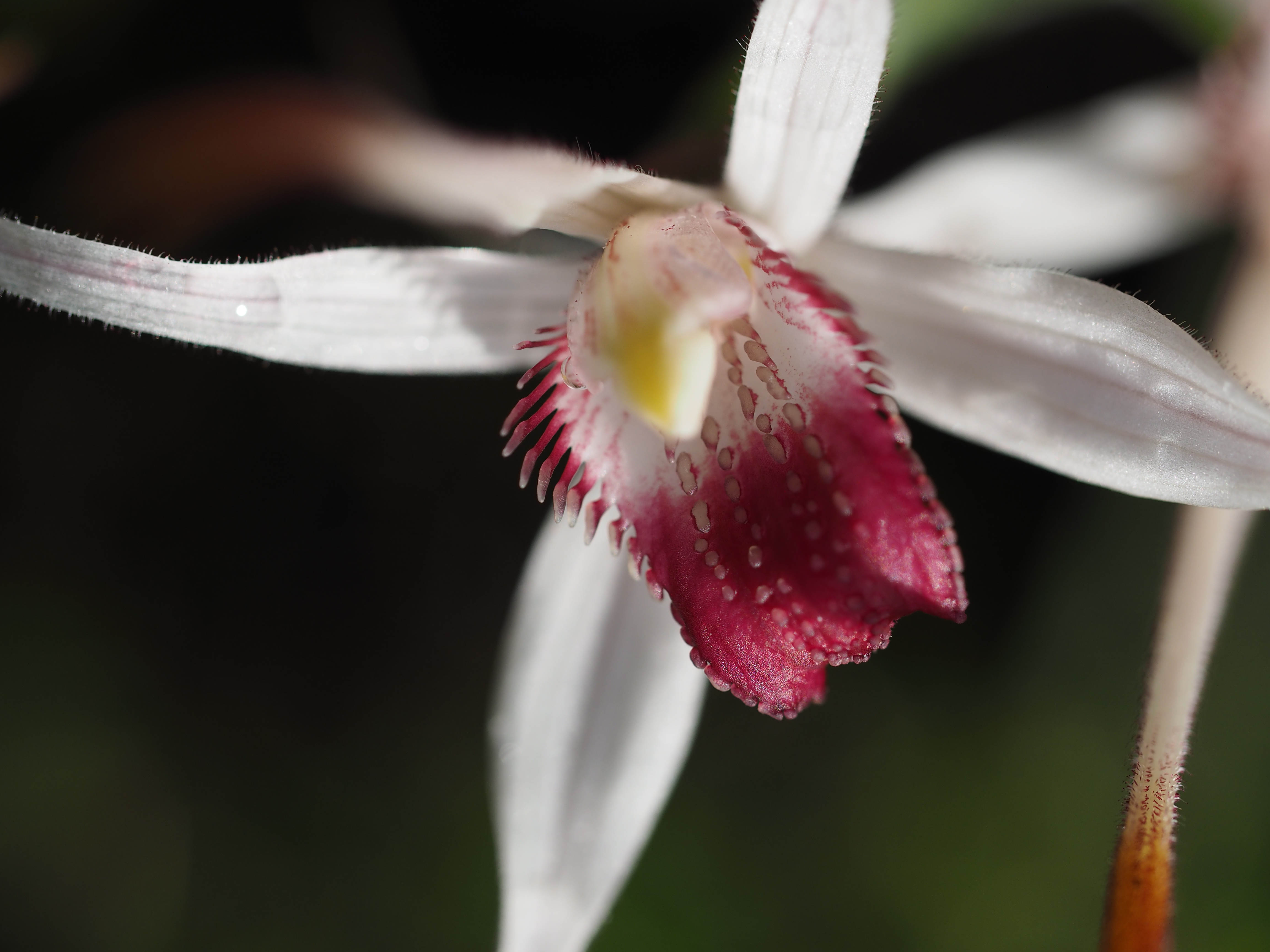 Caladenia nivalis growing near the western end of Moses Rock Road in the Leeuwin-Naturaliste National Park in Western Australia.